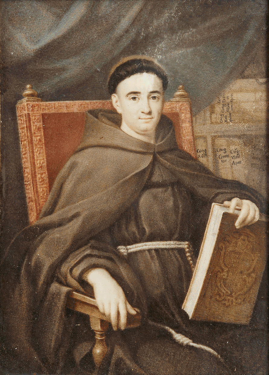 Portrait of D. Friar José Maria da Fonseca Évora (1690-1752), Portuguese Ambassador to the Holy See and, later, bishop of Oporto.